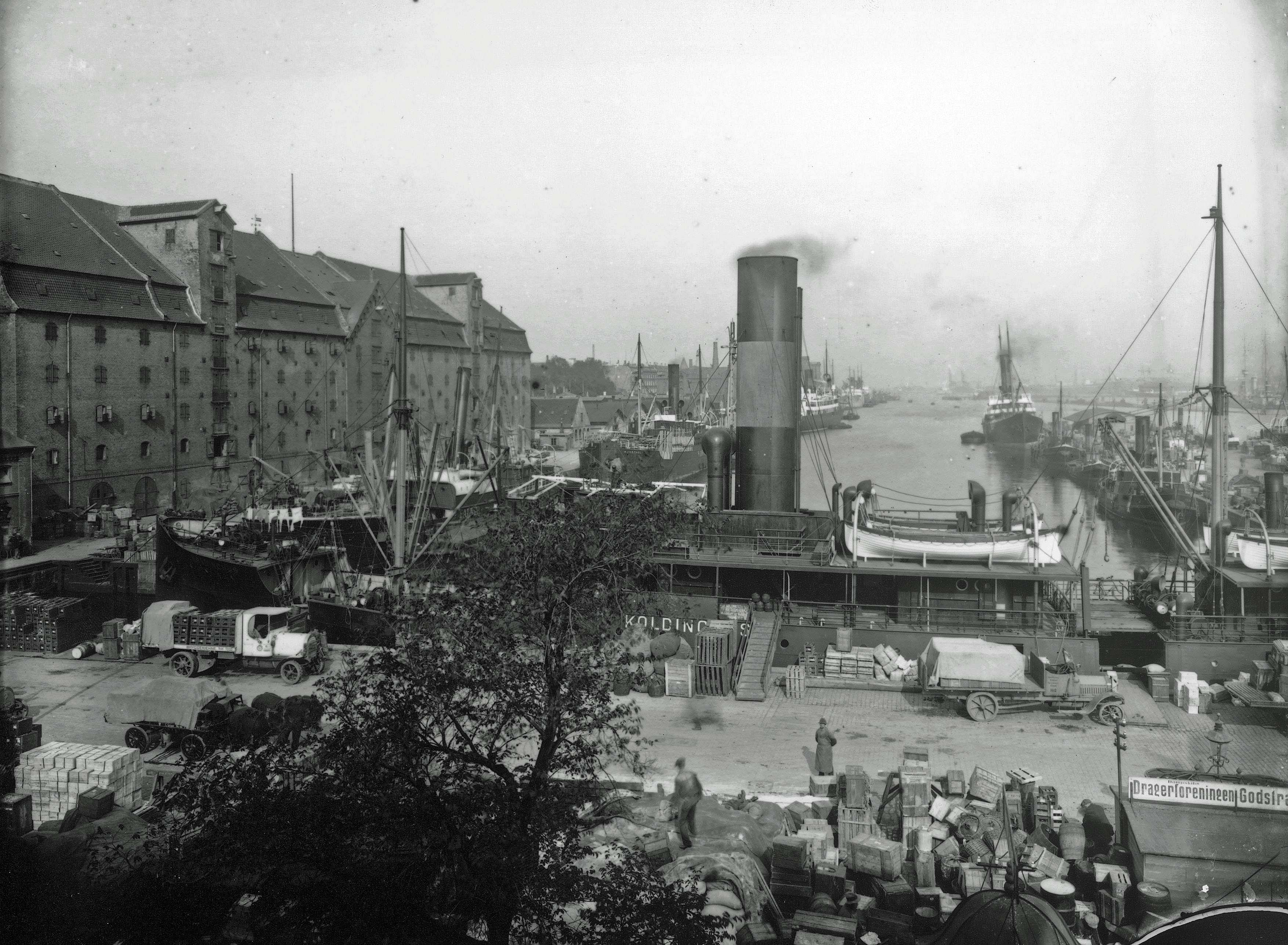 This is Copenhagen Habour, in front of Copenhagen Admiral Hotel.